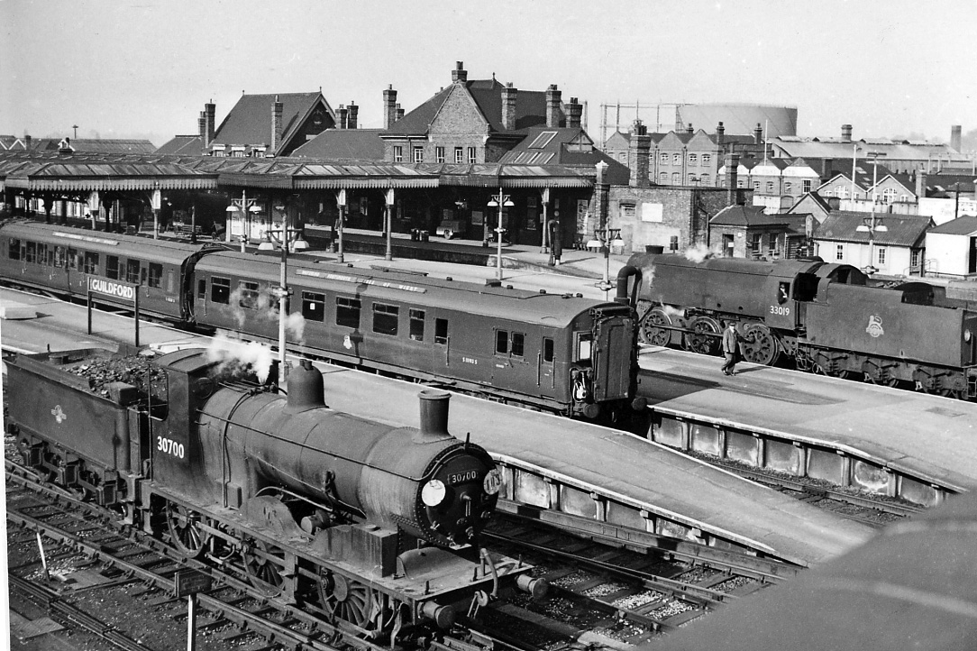 South end of Guildford Station. General view NW from a road bridge: the ex-LSW major station on the lines London (Waterloo) - Portsmouth (via Woking or Cobham); Aldershot, Reading etc. - Redhill; also ex-LB&SC to Horsham. In the foreground is ex-LSW Drummond '700' class 0-6-0 No. 30700 (built 5/1897, withdrawn 11/62); in the centre is an Up Portsmouth - Waterloo EMU express; beyond is SR Bulleid wartime Q1 class 0-6-0 No. 33019 (built 5/42 as No. C19, withdrawn 12/63).